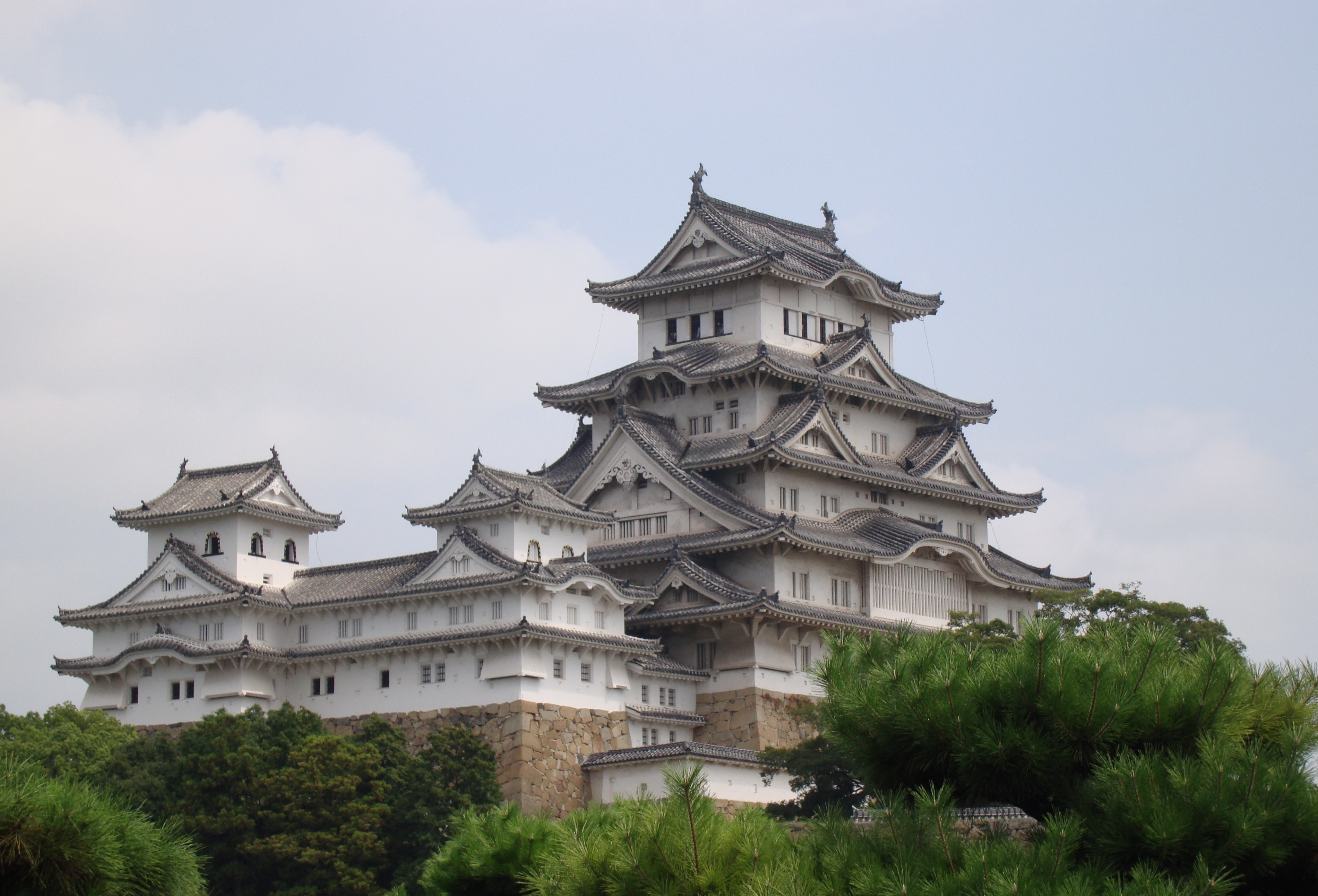 A Castle!